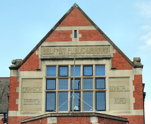 Carnegie library, Belfast (detail) On of three in Belfast, this branch, on the Donegall Road, was built in 1909 to a design by Watt and Tulloch.